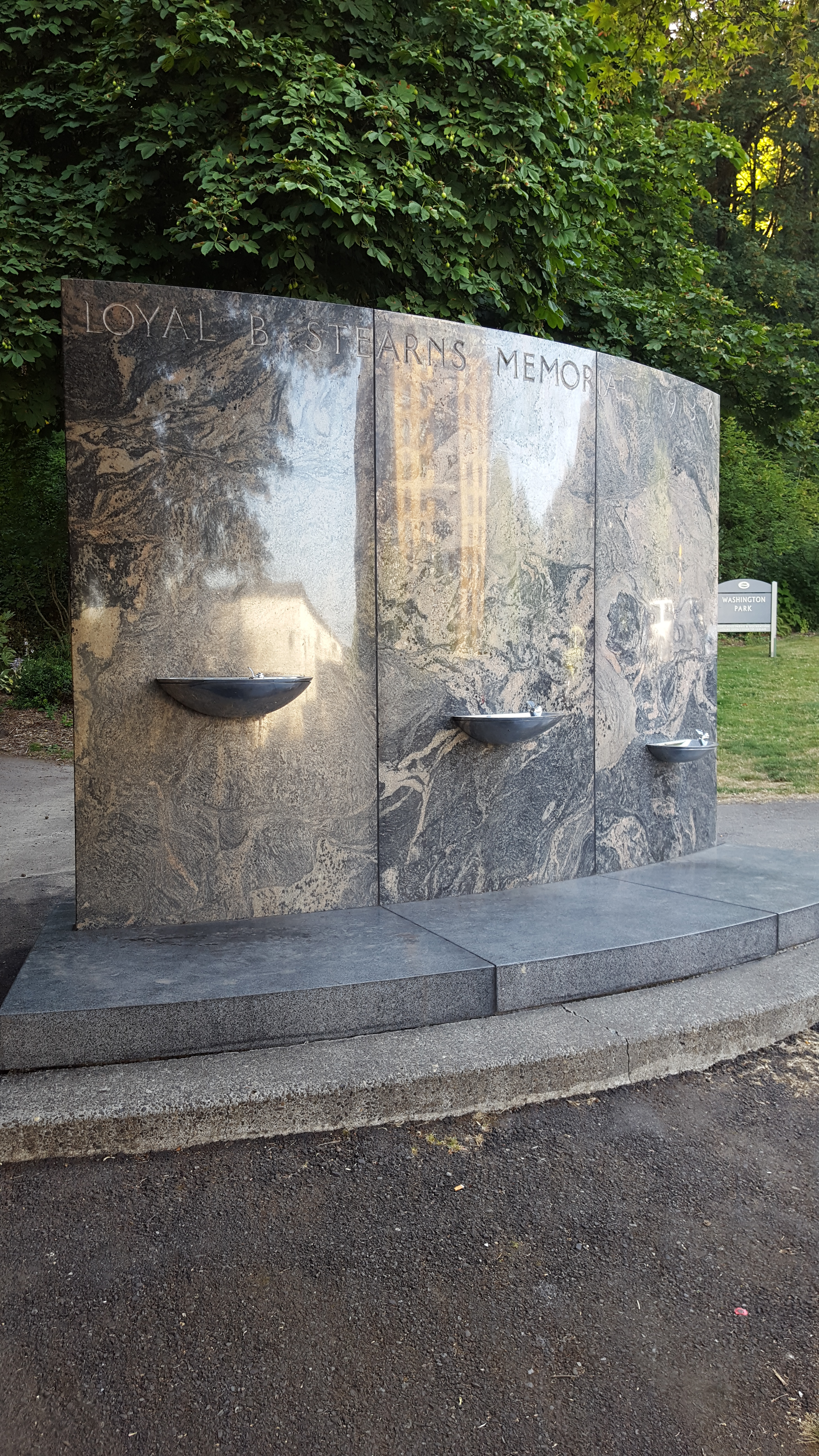 The Loyal B Stearns Memorial Fountain in Washington Park, capturing reflections of nearby buildings